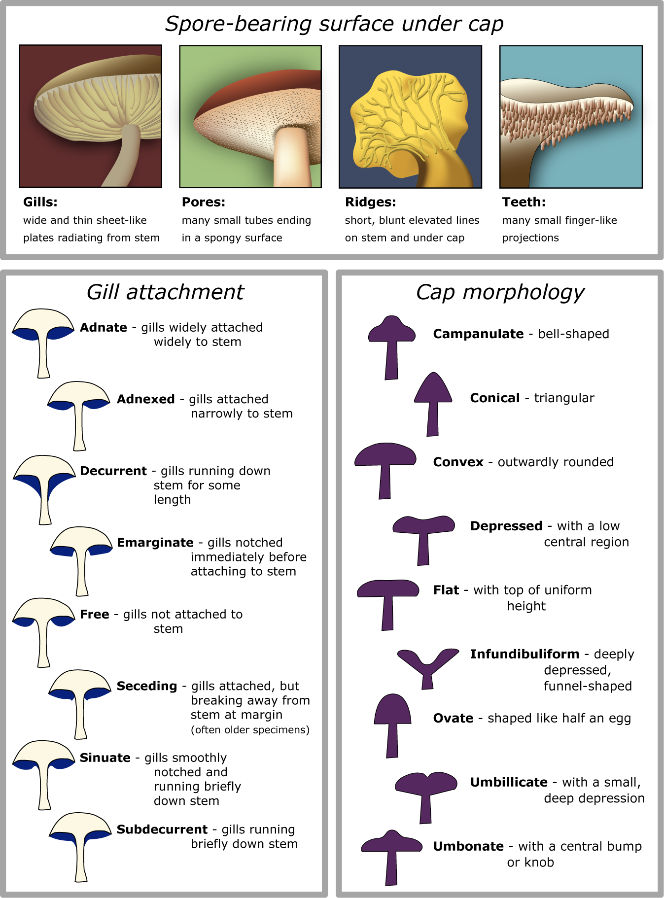 slightly improved version of mushroom morphology chart. Created by me user debivort, January 2006